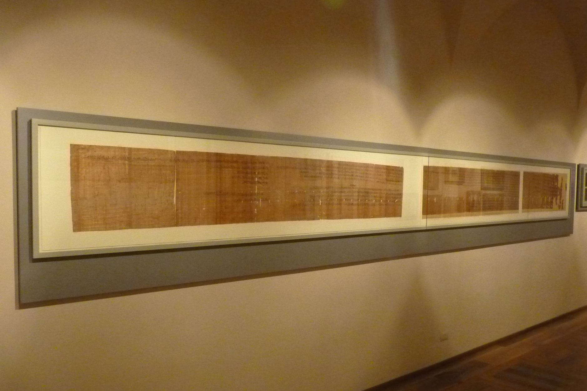 The complete Judicial Papyrus of Turin, the main source for the events of the Harem conspiracy which led to the assassination of pharaoh Ramesses III of the 20th Dynasty. Turin, Museo Egizio.